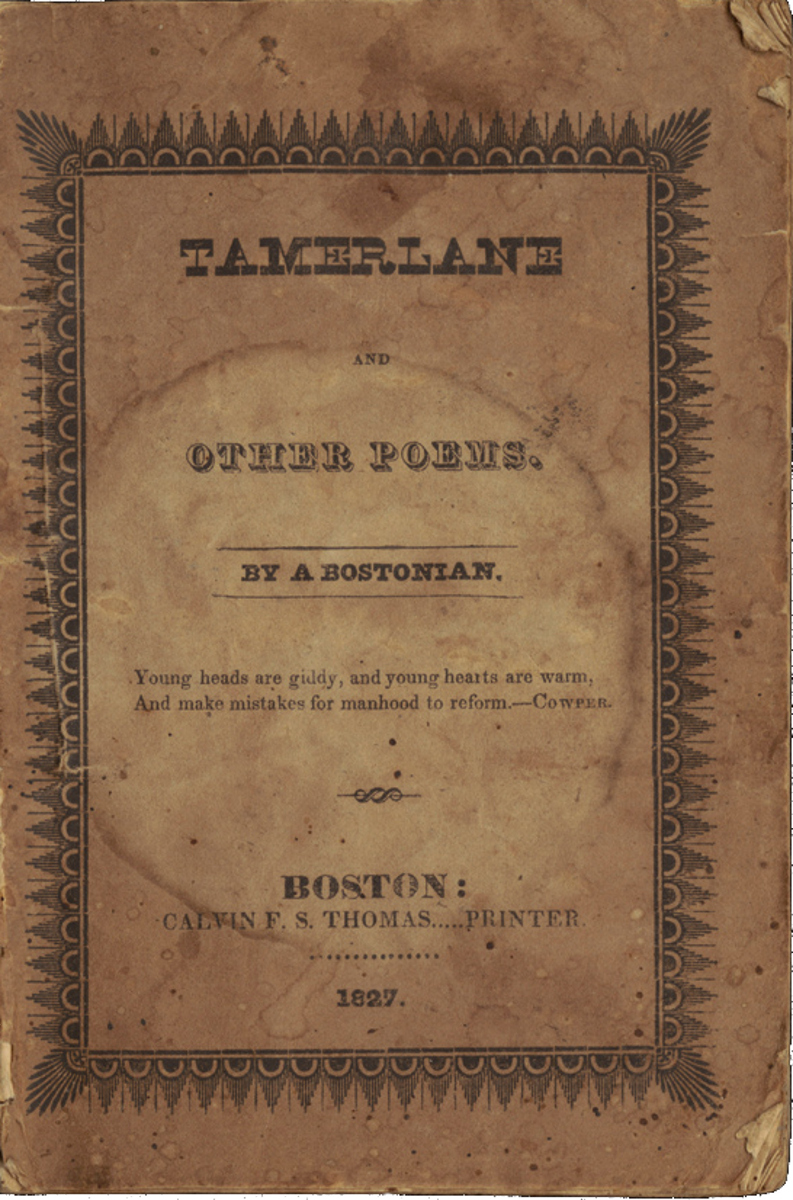 Front cover of Tamerlane and Other Poems by a Bostonian, the first published work of Edgar Allan Poe. Only about 12 copies are known to exist. This one is from the Susan Jaffe Tane Collection, the largest privately-owned Poe collection in the world. According to the web site, this particular copy is the most recent one found. A book collector purchased it in 1988 a New Hampshire antique store for $15.